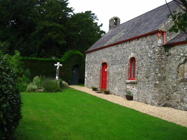 The Chapel at Upton castle For further information check their website